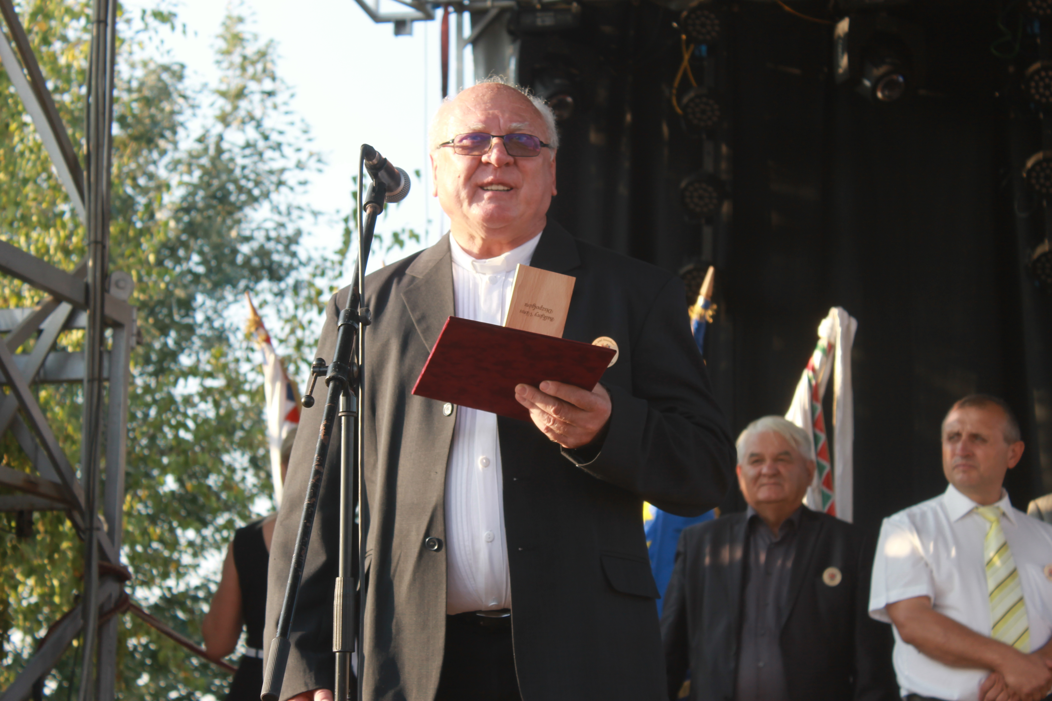 The honorary citizen of the Town of Balkány, Hungary in 2016: Sándor Jaczkó, greek-catholic dean.